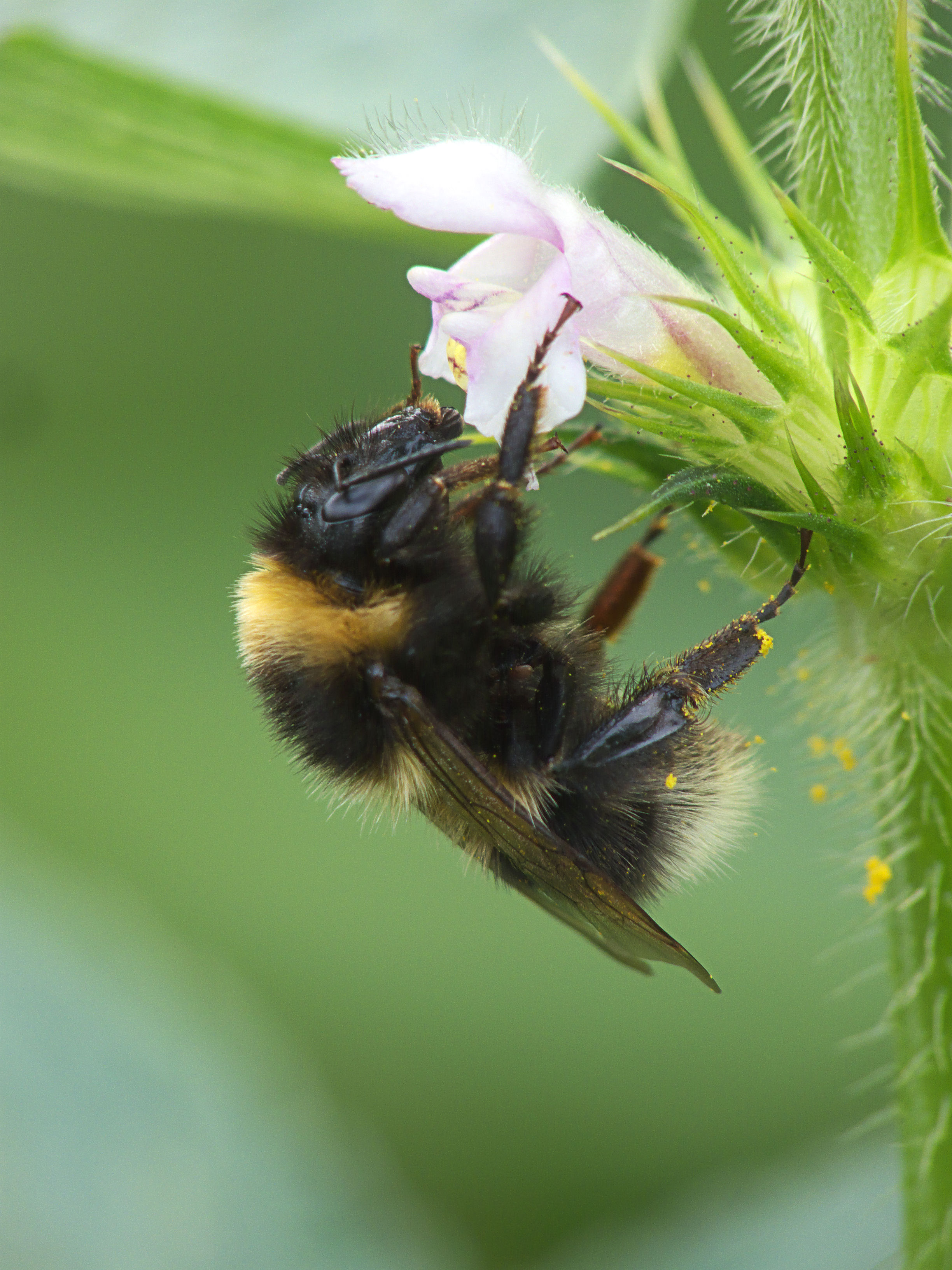 Bombus hortorum on_Galeopsis tetrahit